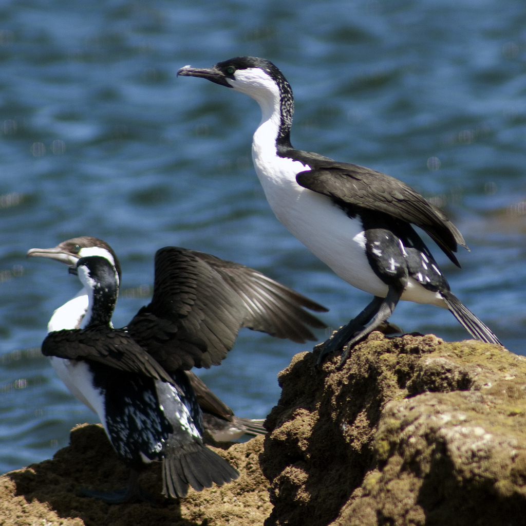 First time out with my new lens - a Tokina 400mm f/5.6 SD that I picked up off eBay. It was a bit of an unsteady walk out to the end of the reef, so I did without the tripod, yet the photos came out better than I expected. I'm looking forward to what the lens can do once I get to know it and have a tripod on hand. These are three Black-Faced Cormorants (Phalacrocorax fuscescens) on a rock at Aldinga Beach, South Australia. Hand held.